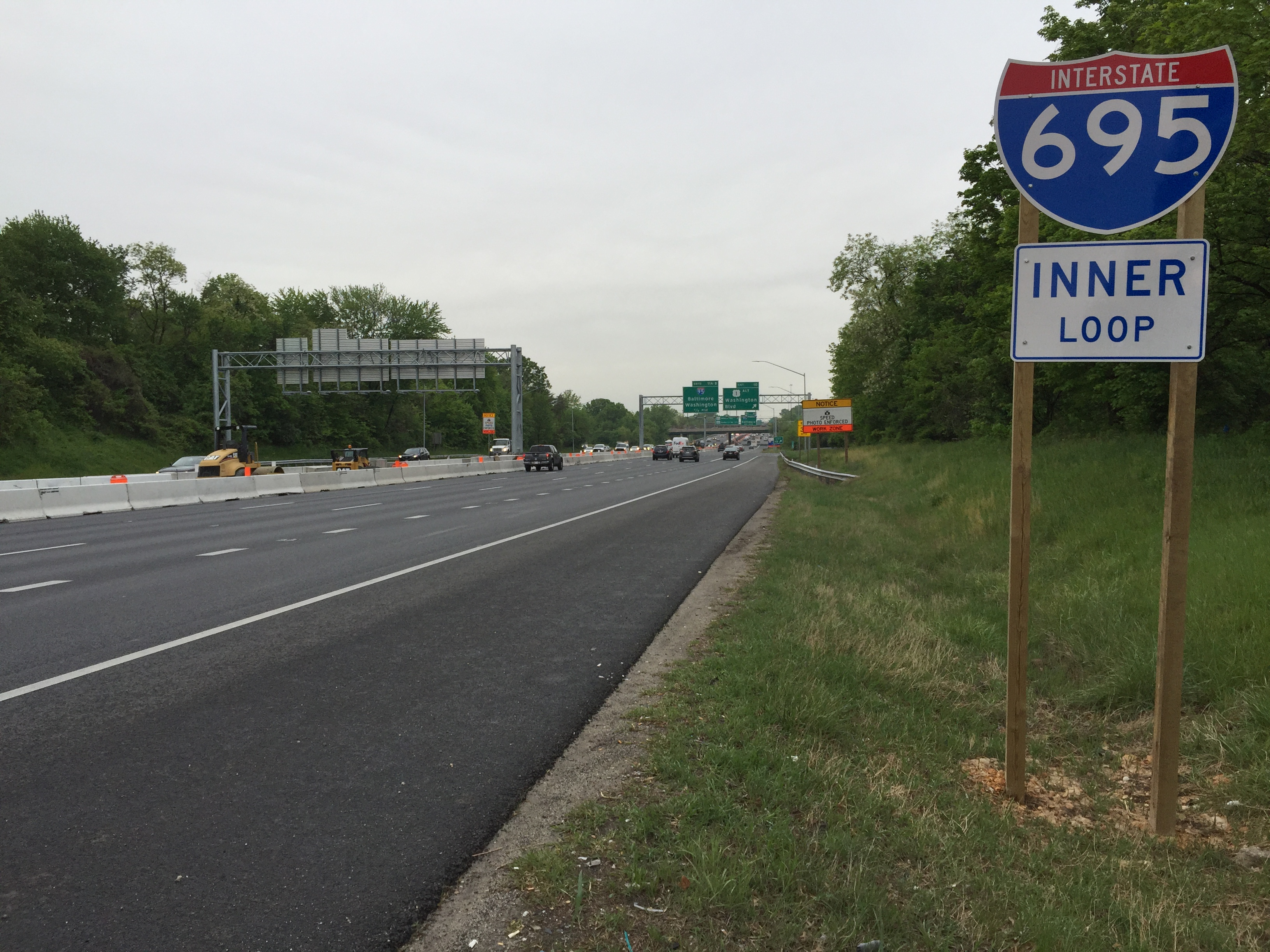 View northwest along the inner loop of the Baltimore Beltway (Interstate 695) between Exits 9 and 10 in Arbutus, Baltimore County, Maryland